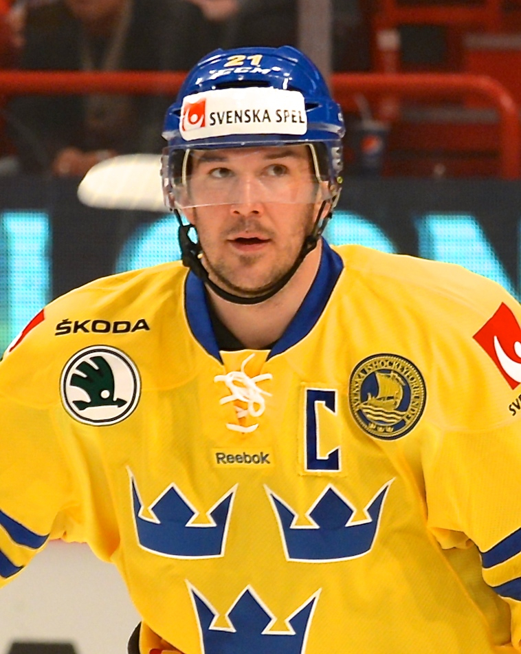 Jimmie Ericsson during Oddset Hockey Games against Russia (2-0) at the Ericsson Globe in Stockholm on May 4th, 2014.